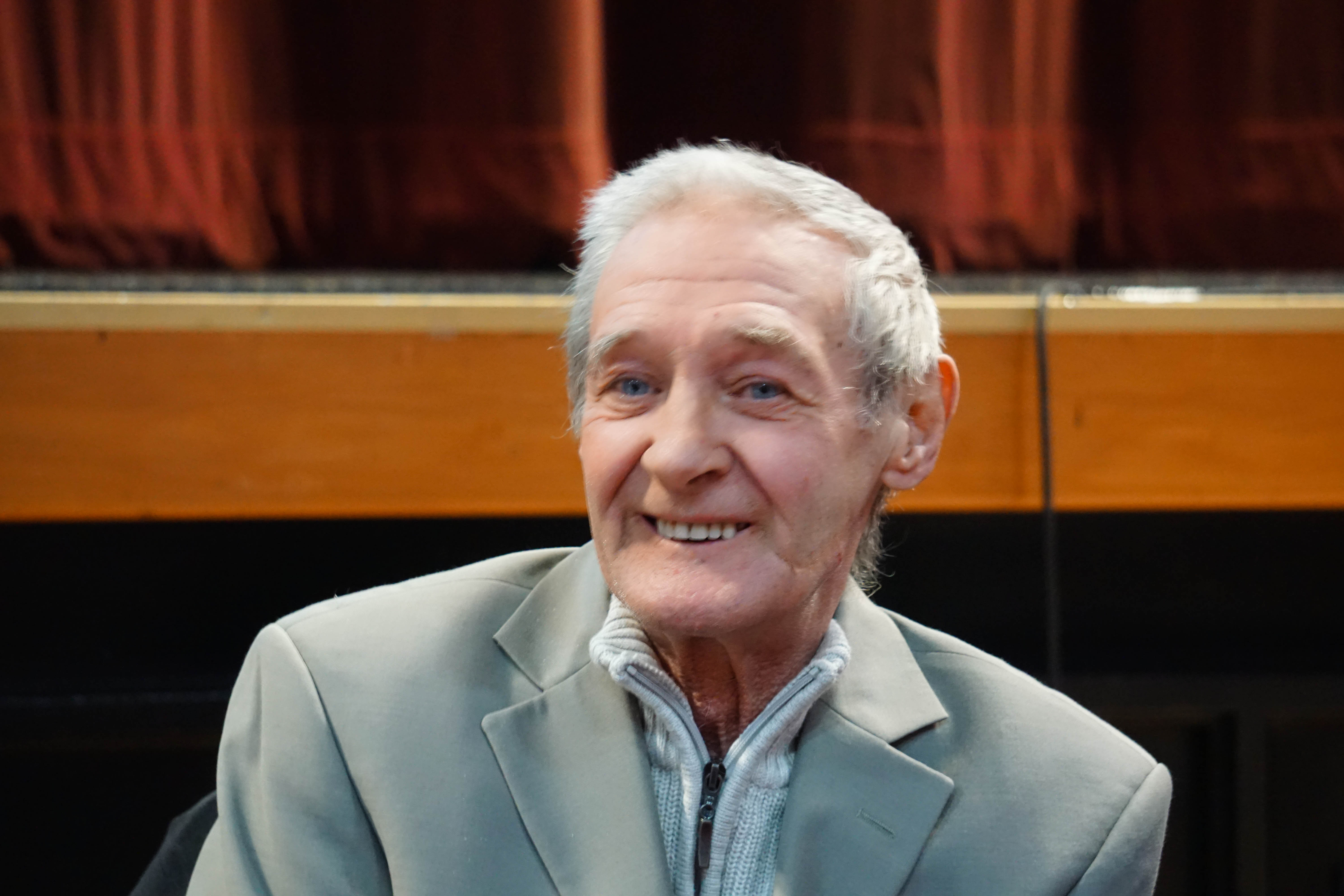 Paddy Hill from the Birmingham Six at the first Gerry Conlon Memorial Lecture at St. Mary’s College Belfast.